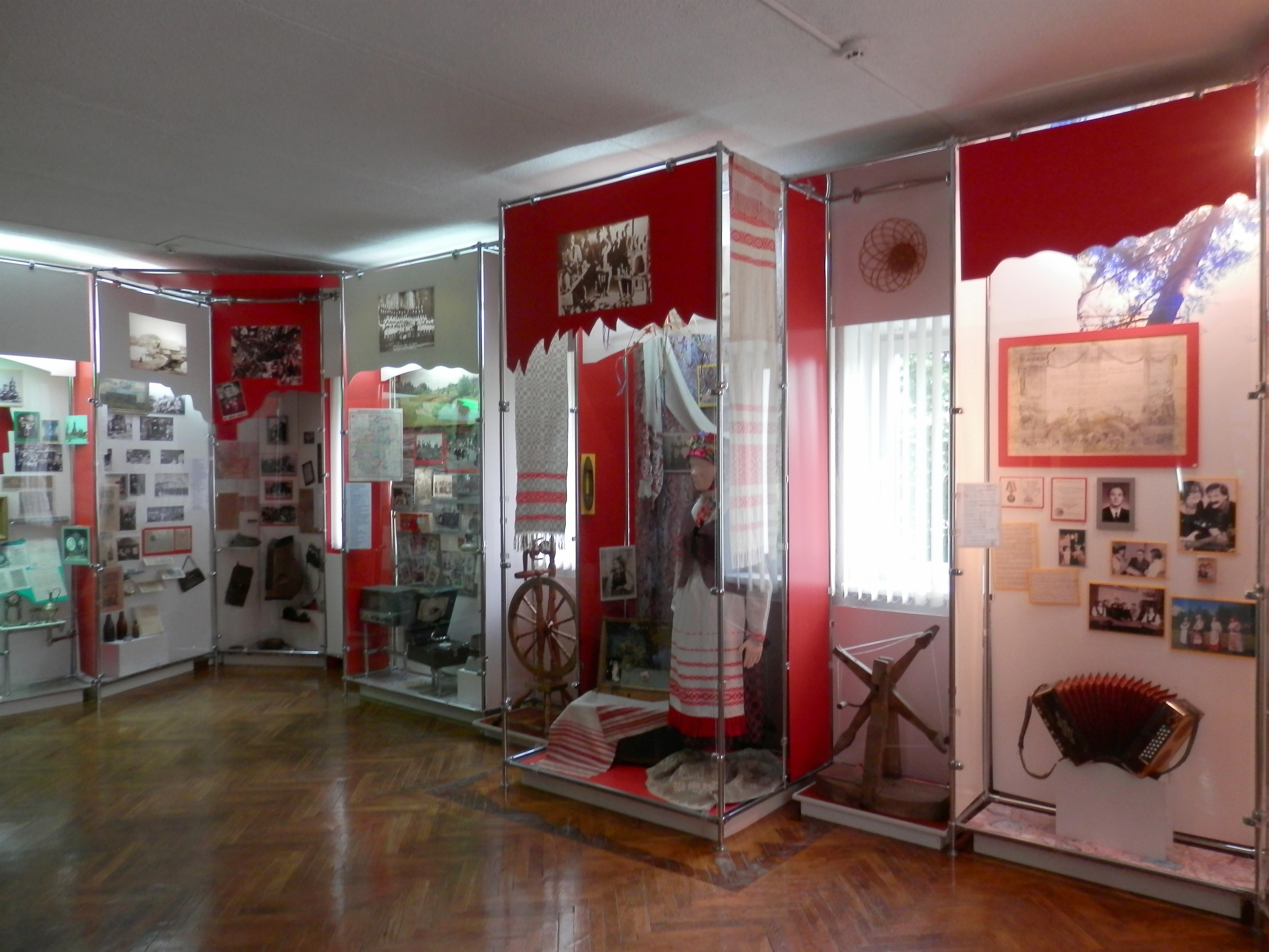 Museum in Ivianiec (Belarus)